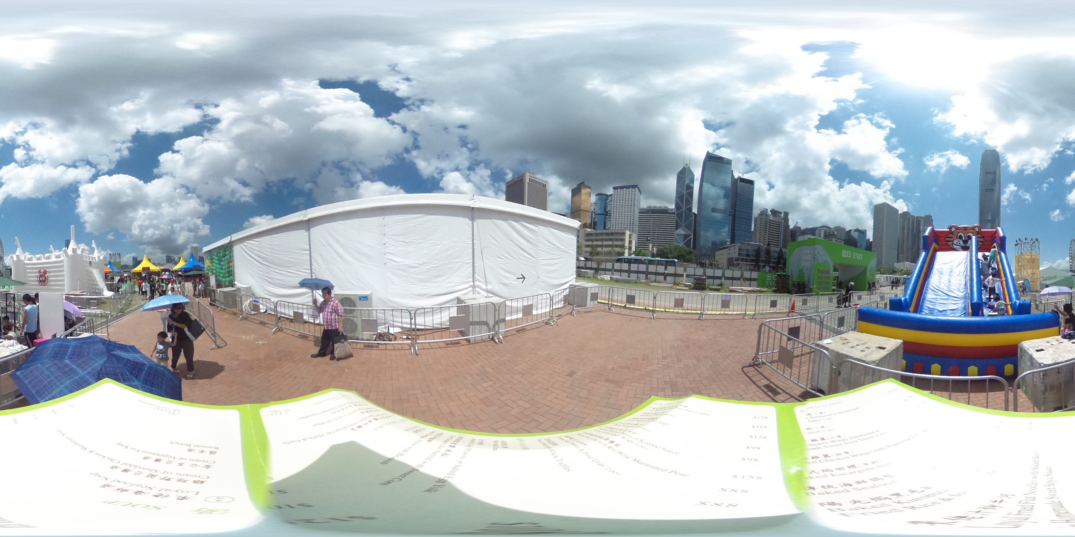 Lai Yuen 荔園 Super Summer 2015 at Central Waterfront Promenade Park, Central, Hong Kong 理光THETA